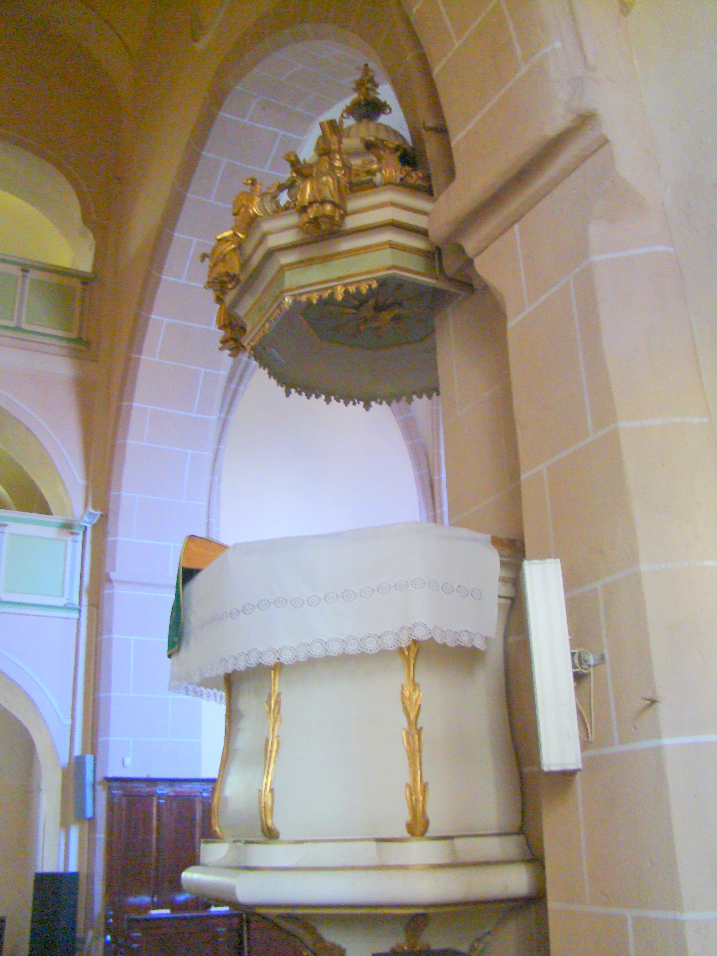 Lutheran church in Reghin, Mureş county, Romania